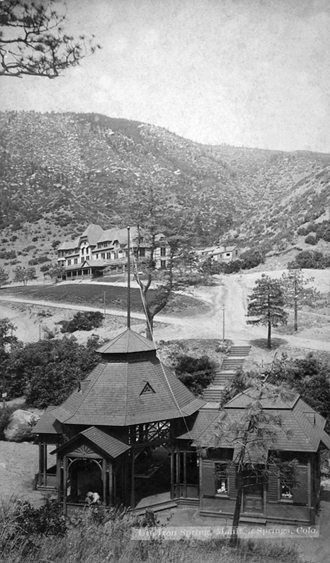 Ute Iron Spring, Gazebo and curio shoppe. Iron Springs Hotel in background. Photograph courtesy: Manitou Springs Heritage Center. Before 1901, and likely before 1891 when Manitou and Pike's Peak Railway began service